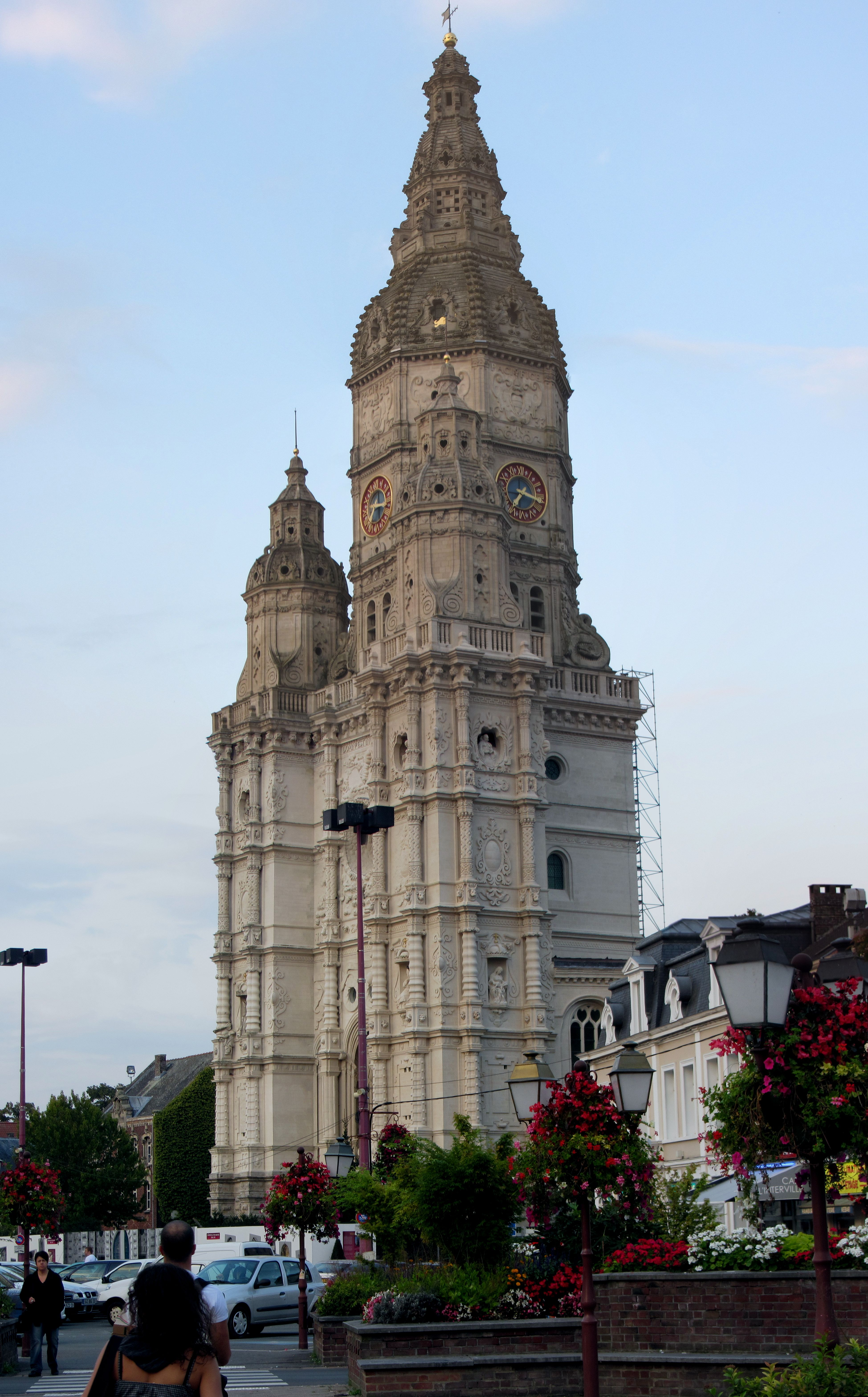 Tower of the abbey in Saint-Amand-les-Eaux .